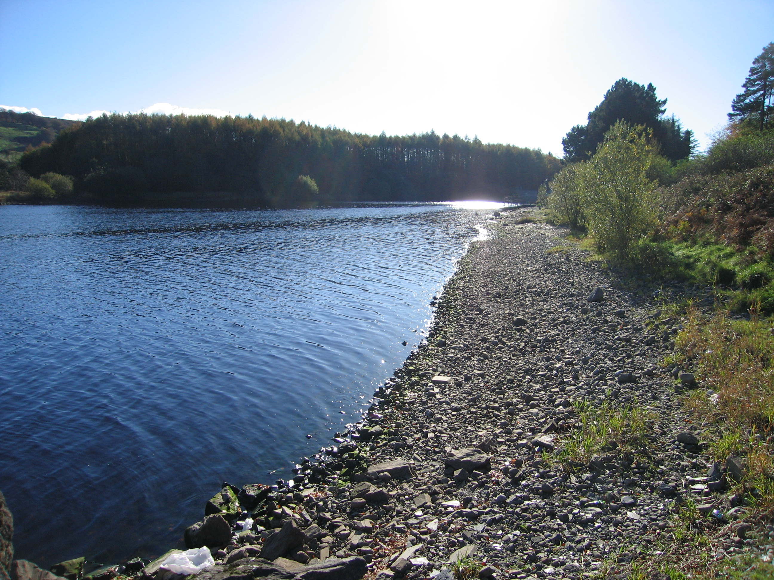 Poulaphouca Reservoir, County Kildare, near to Bishopland Ballymore Road, Carlow, Ireland. Near the dam a section of the western edge of the lake is in County Kildare.